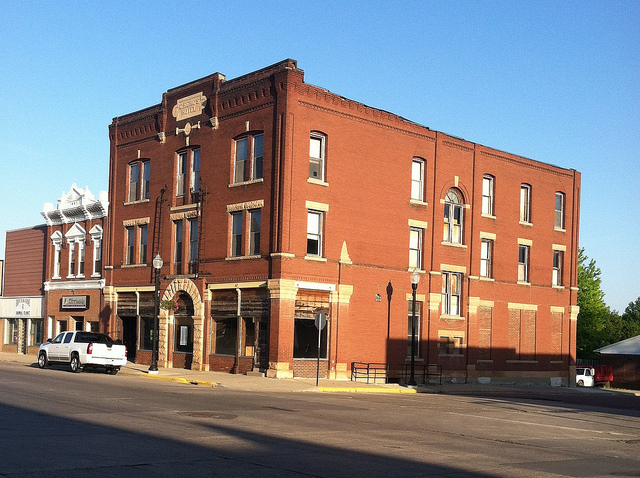 The C. Berg Hotel in Sleepy Eye Minnesota. On the National Register of Historic Places.